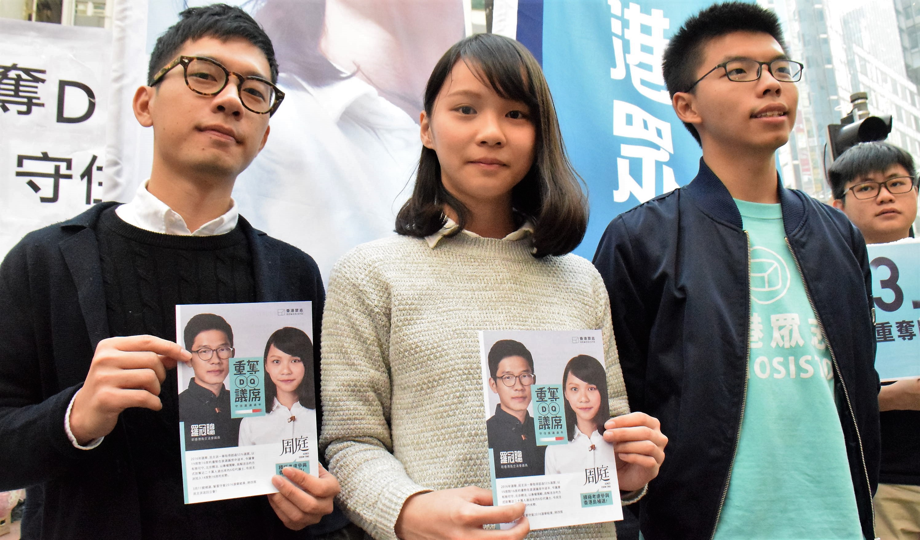 香港眾志立法會港島區補選首次街站宣傳 (攝影：美國之音湯惠芸)